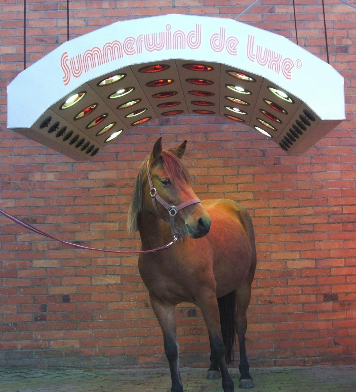 Horse Solarium, Pferdesolarium